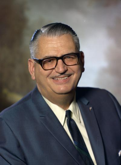 Senator Al Henry, 1969